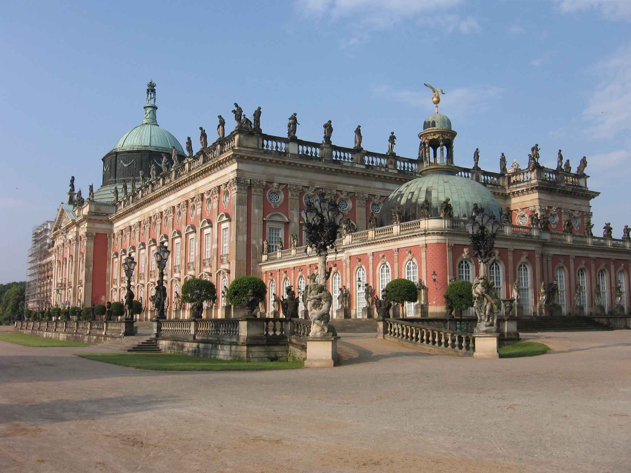 Neues Palais (Sanssouci)